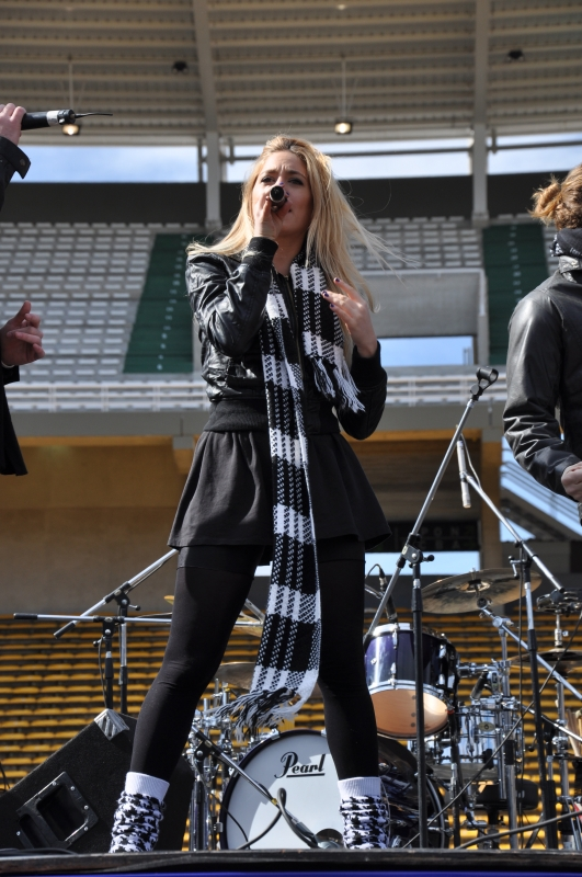 Rocío Igarzábal from Teen Angels at a concert in Cordoba, Argentina.